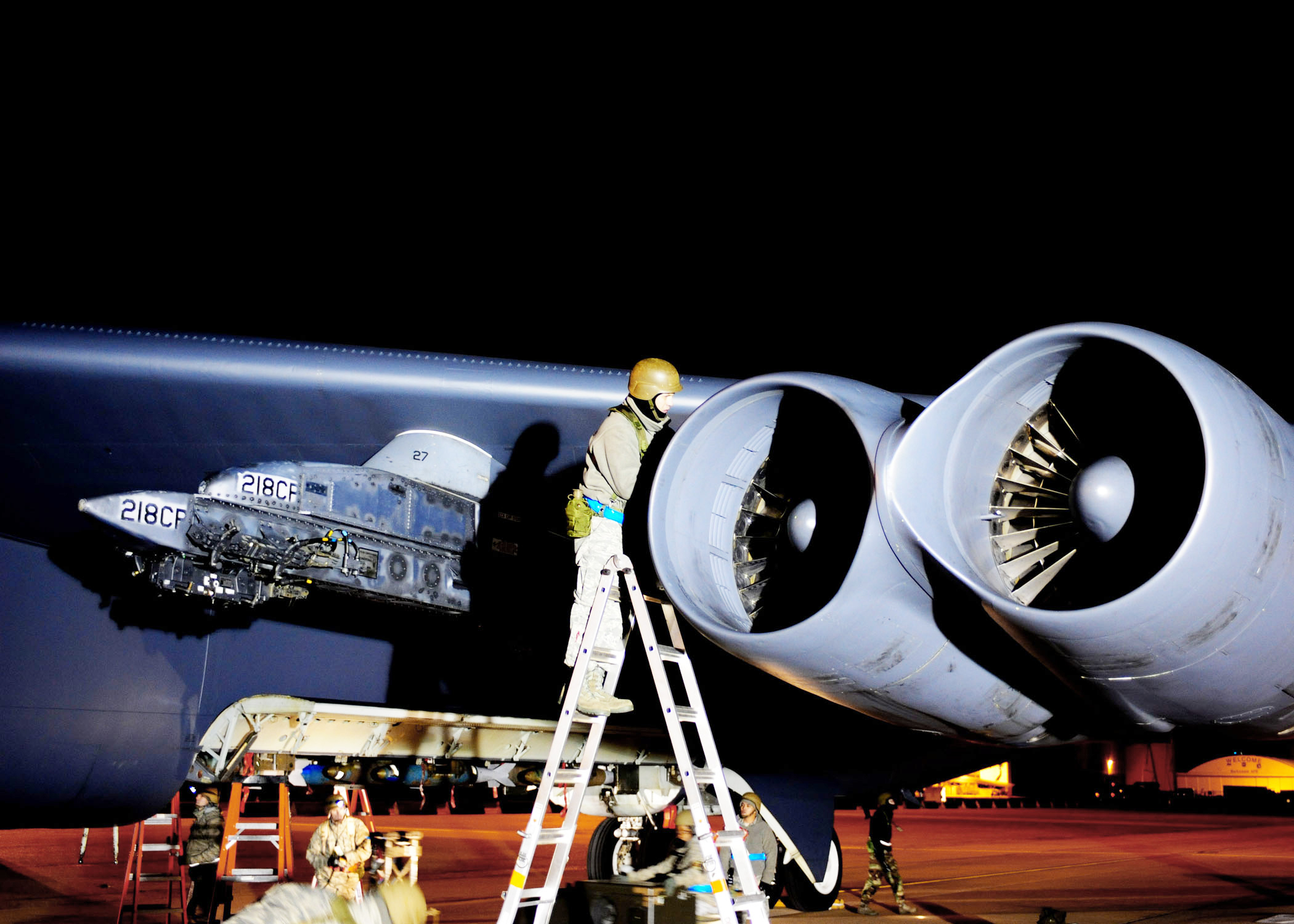 Getting it ready Staff Sgt. Ben Norton works to regenerate a B-52 Stratofortress Dec. 8, 2009, at Barksdale Air Force Base, La. Airmen work around the clock at a "forward operation" during an operational readiness inspection to determine the ability to rapidly deploy assets and personnel. Sergeant Norton is assigned to the 2nd Aircraft Maintenance Squadron.